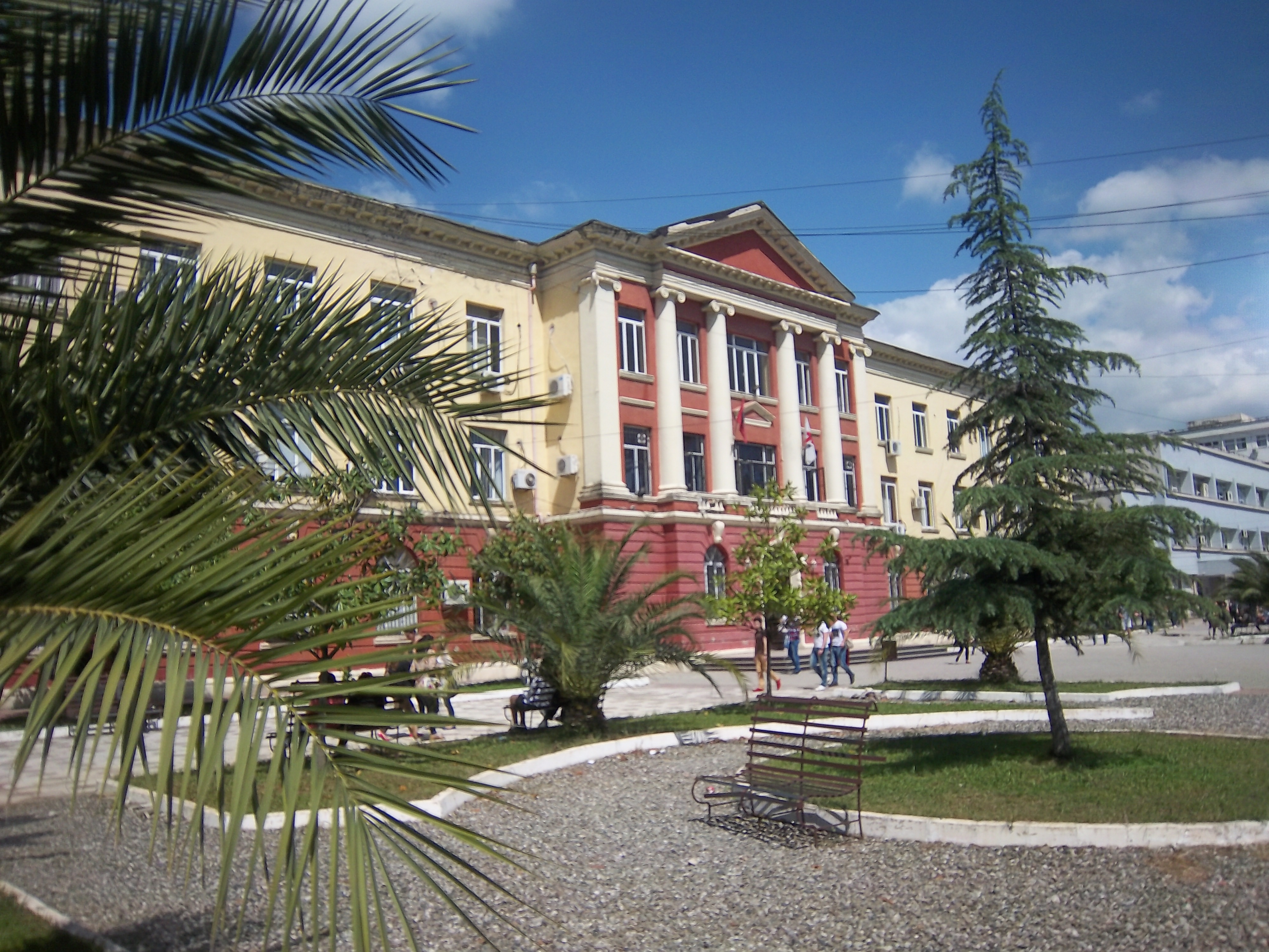 This picture was taken for the project "Tirana, let's get up!", implemented during the Balkans let's get up! Spring School in 2013.